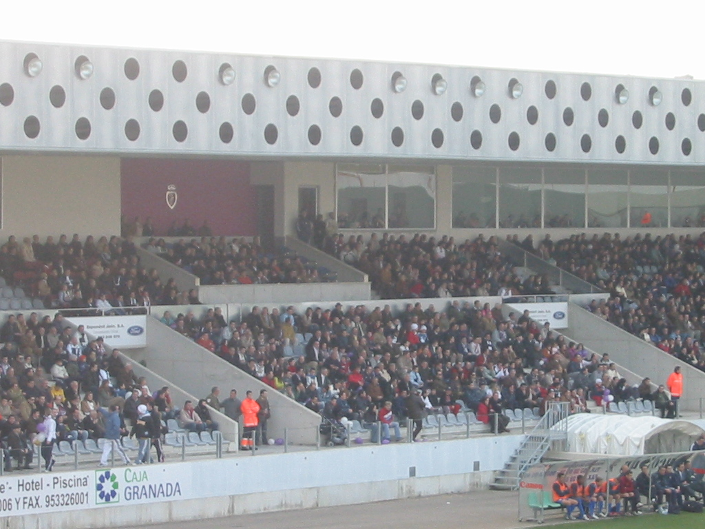 Nuevo la Victoria Stadium grandstands. Picture taken by Luismi on 5th February 2006, during Real Jaén - CD Linares match.